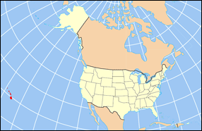 Map of USA with Hawaii highlighted and shown in true position